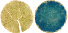 Agroinfiltration uing a promoter::GUS construct with and without p19